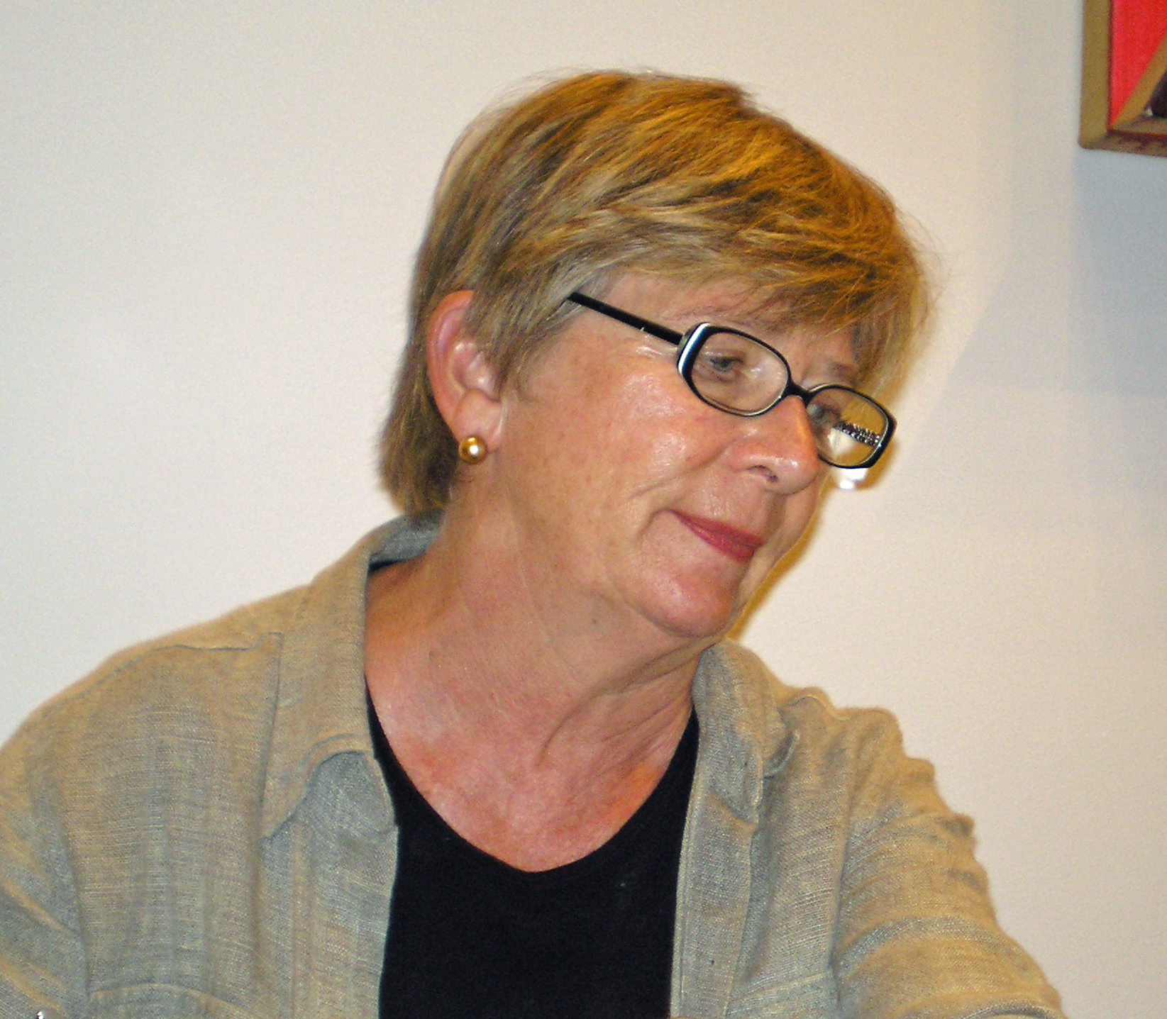 Barbara Ehrenreich 2 by David Shankbone, New York City